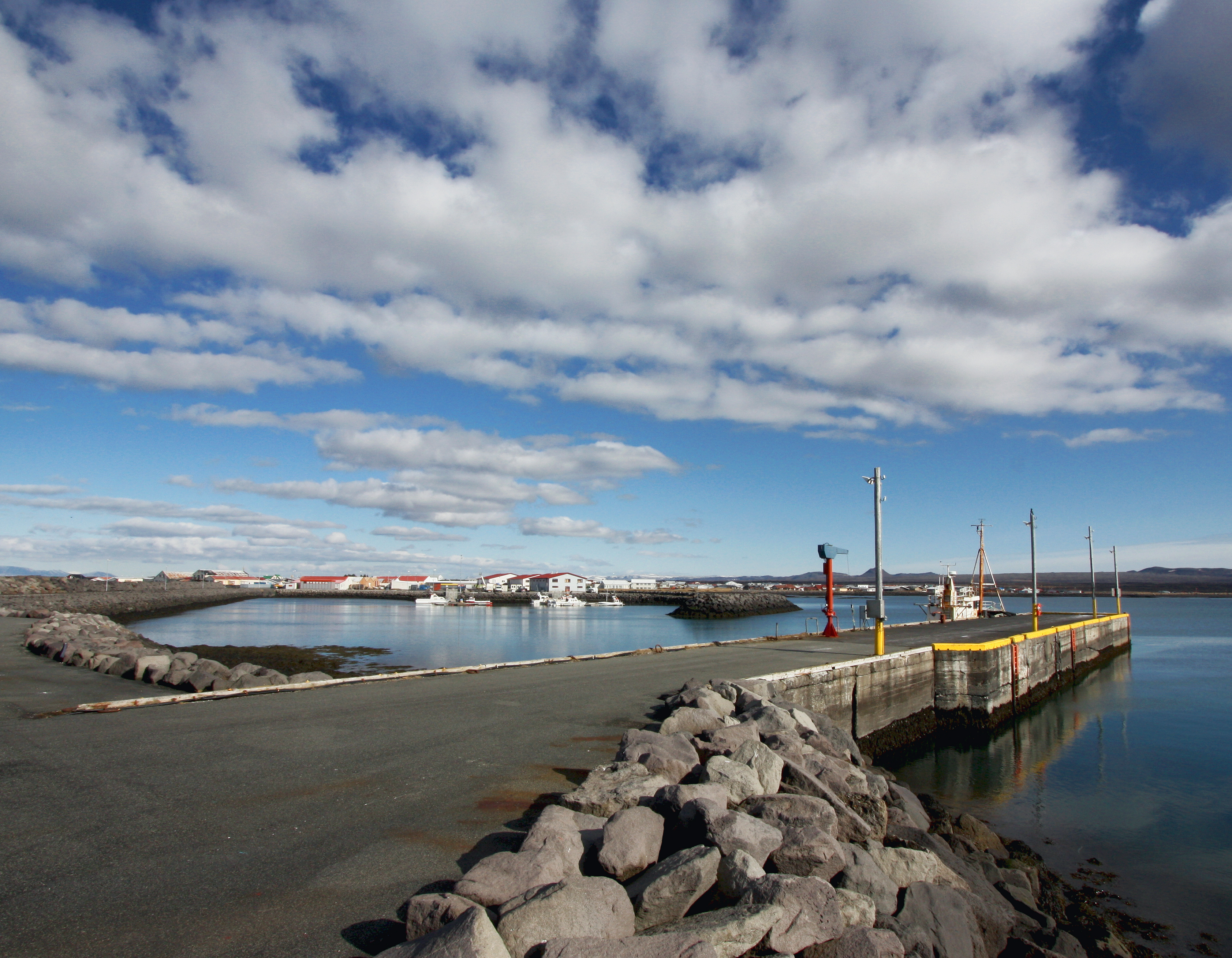 The story of Vogar and the fishing industry are one and the same. For hundreds of years, the harbour at Vogar was the key to rich fishing grounds off Vogastapi, so rich that they were known in Icelandic simply as Gullkistan, Chest of Gold.